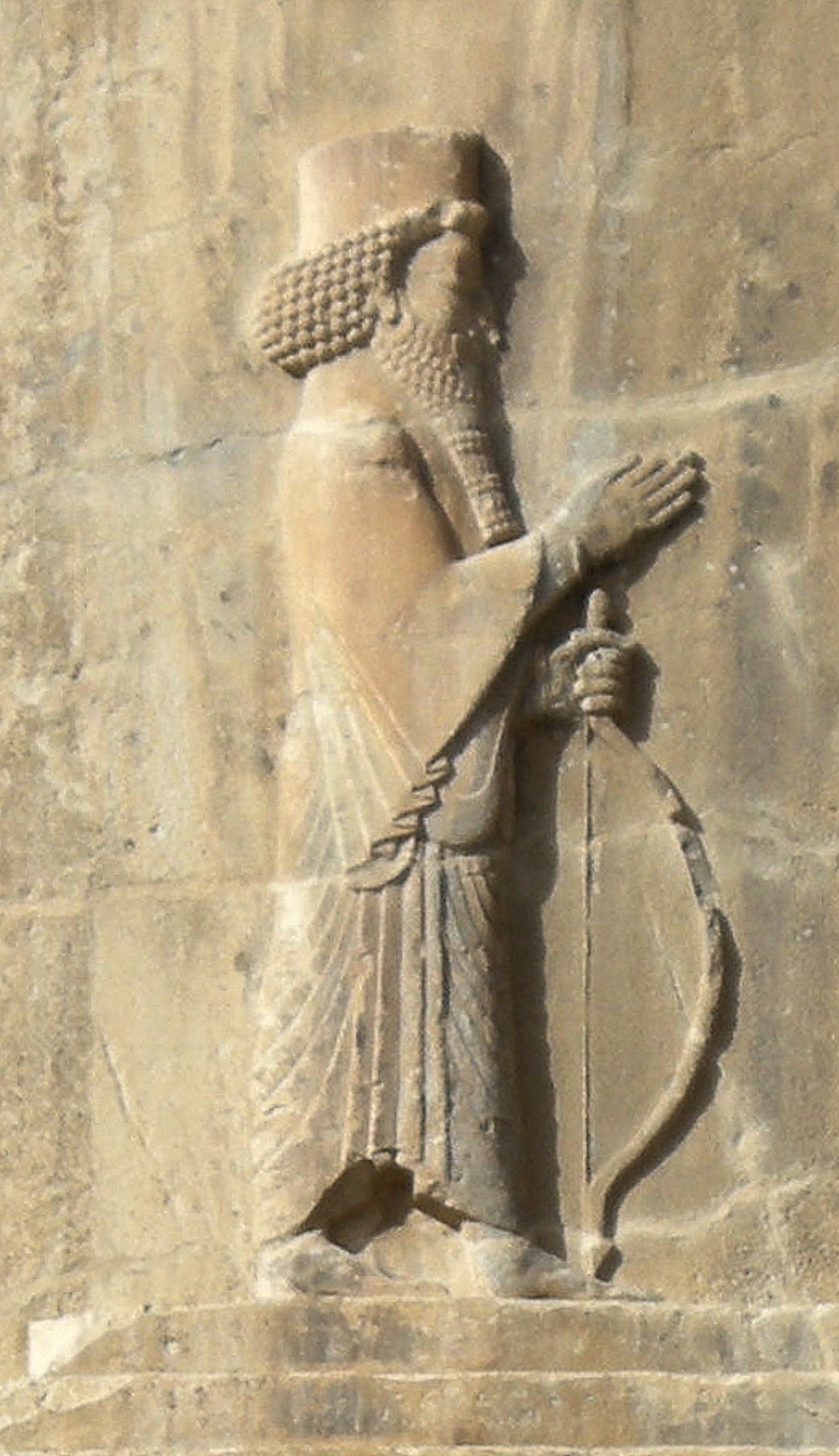 Artaxerxes III tomb detail